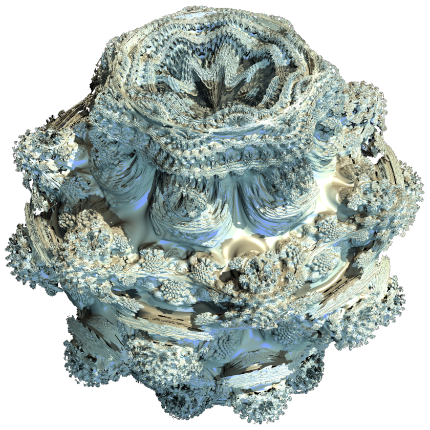 The Mandelbulb at 5 iterations